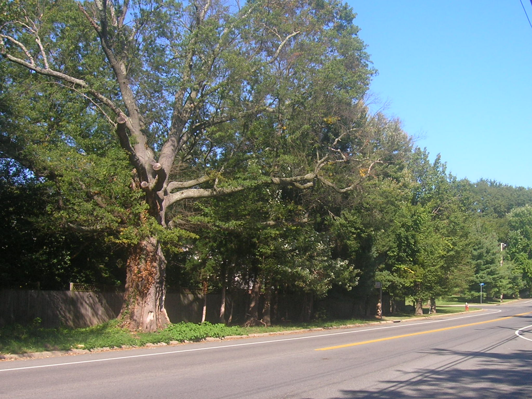 A photo I took.